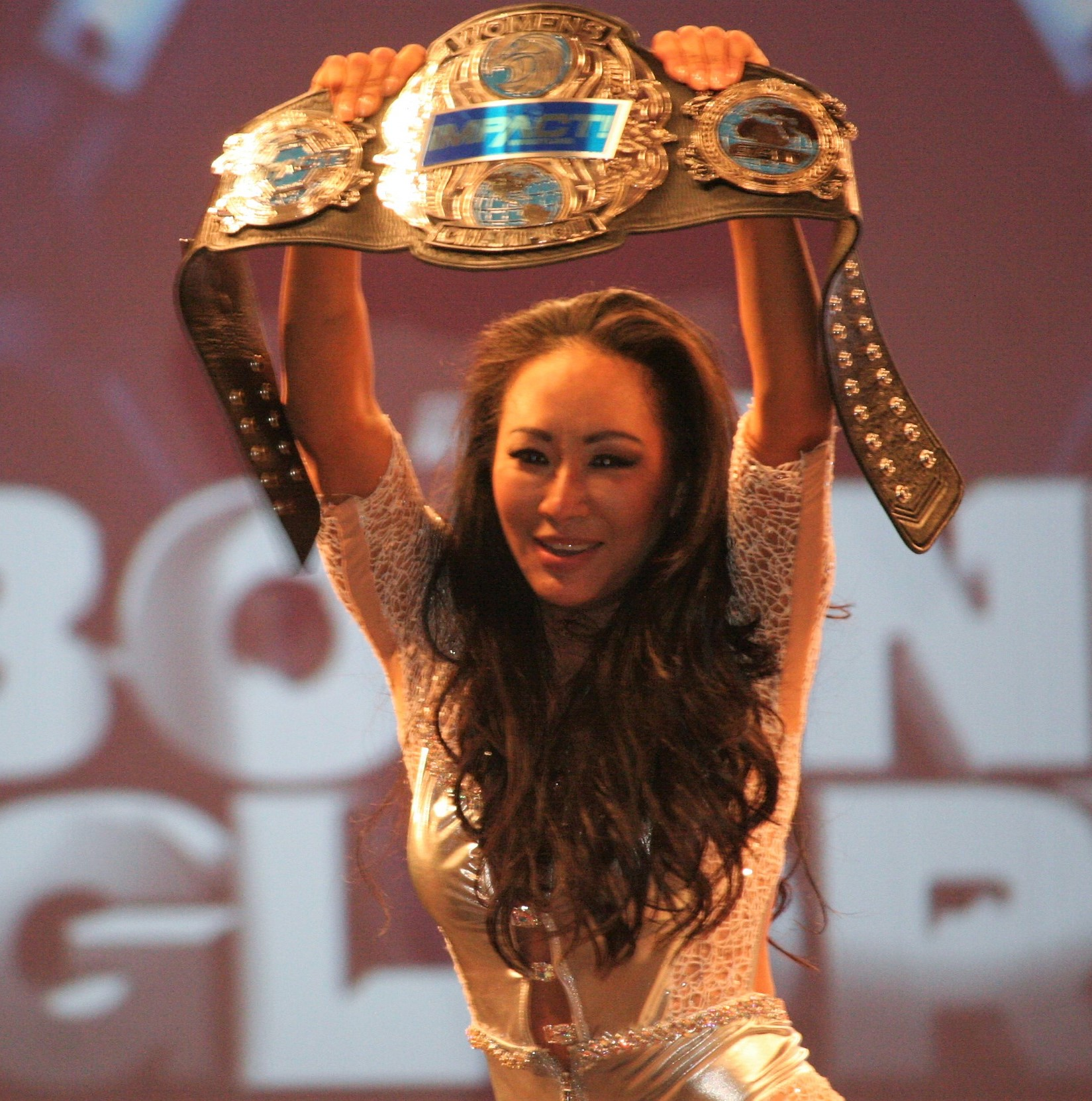 Gail Kim as the Impact Wrestling Knockouts Champion at the Bound for Glory event in November 2017.